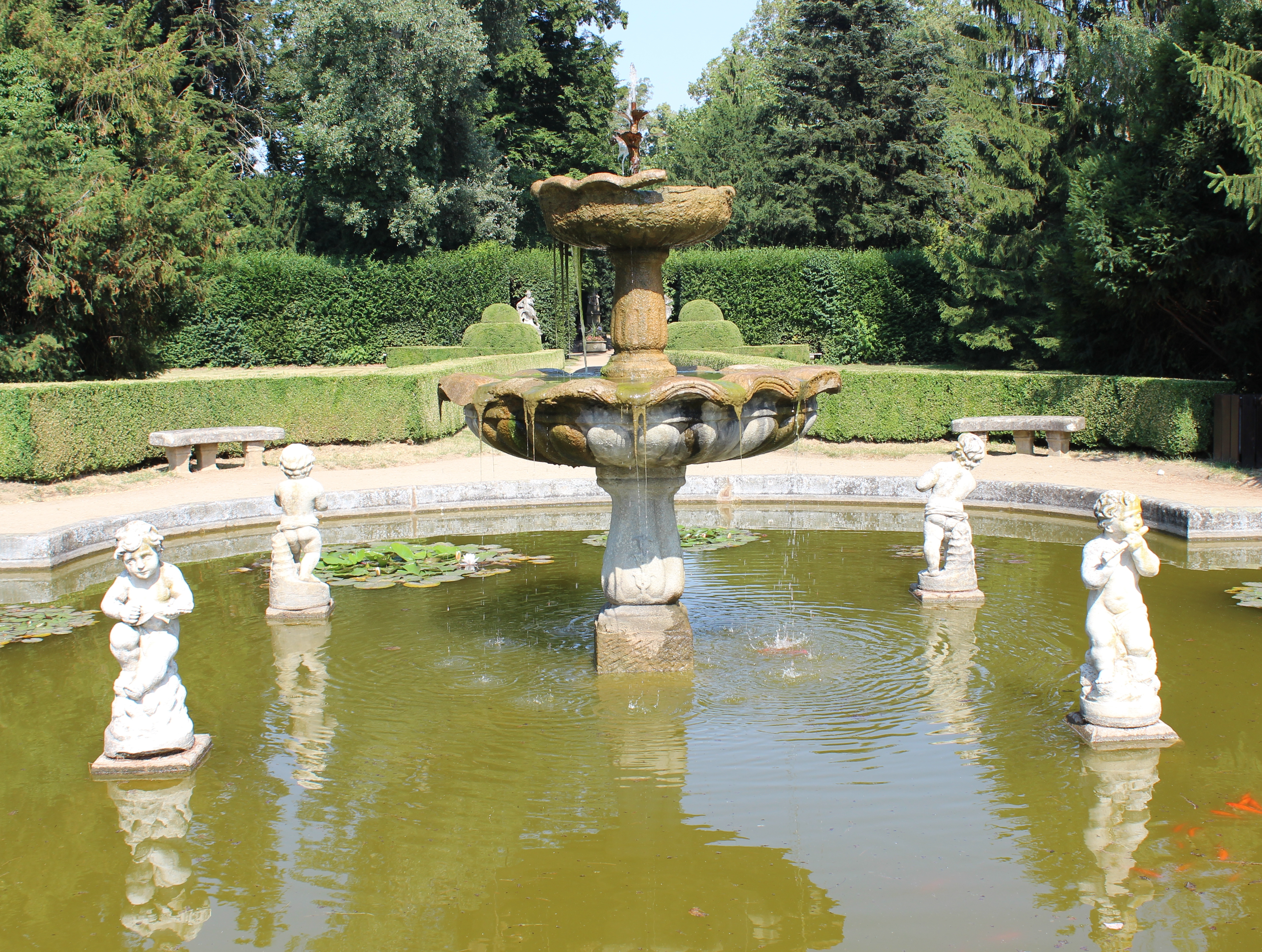 Buchlovice chateau (castle) nad its garden. Uherské Hradiště District, Zlín Region, Czech Republic Project: Chráněná území This photograph was taken with a DSLR from WMCZ's Camera grant.